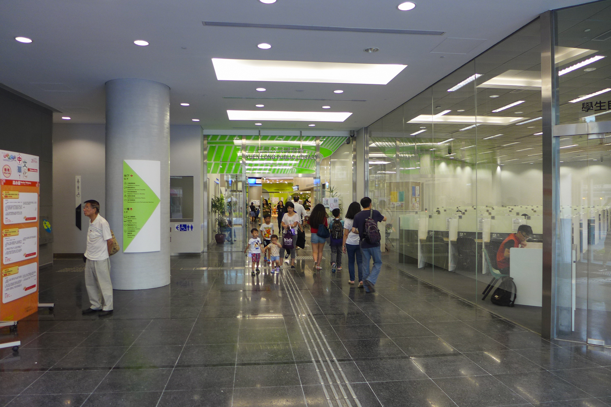 Yuen Long Public Library Entrance